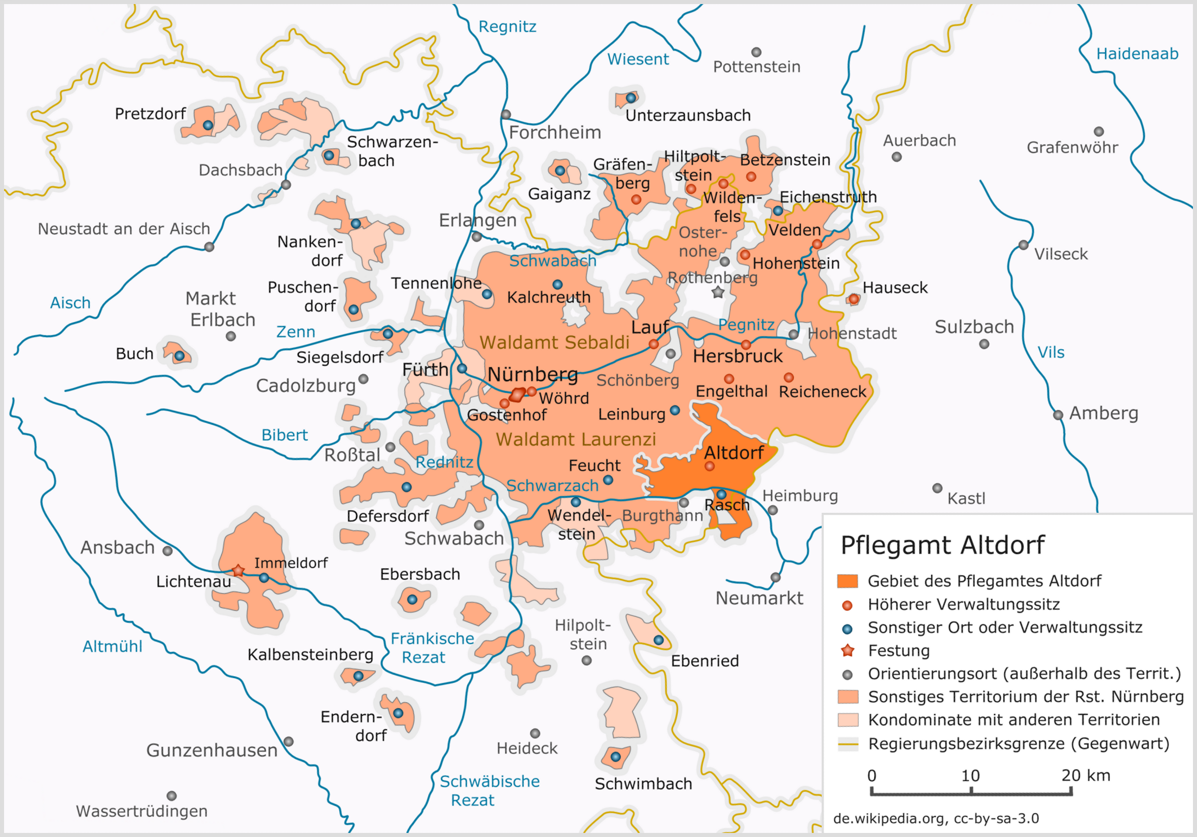 Map of the Pflegamt Altdorf